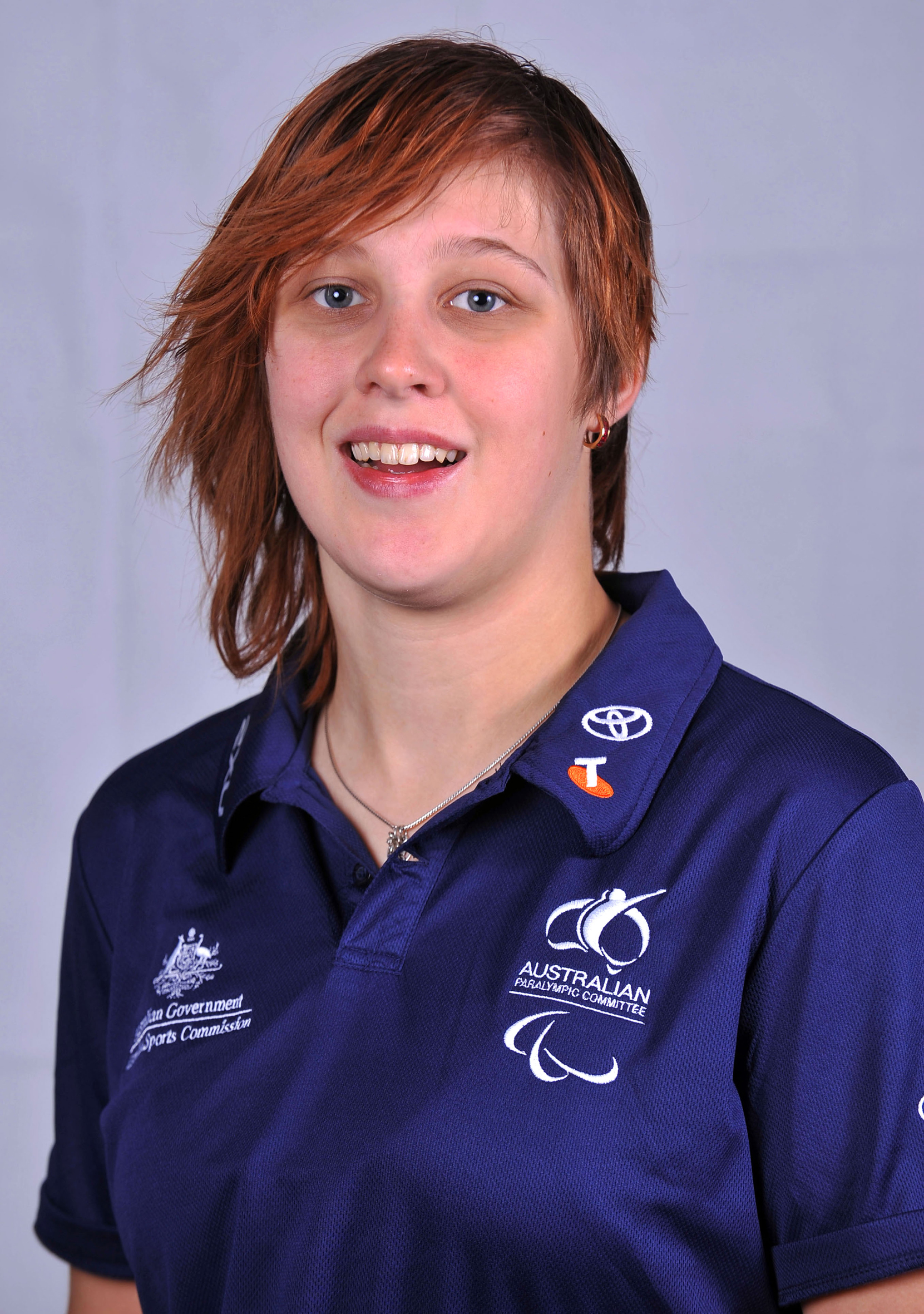 Portrait of Australian athlete Brydee Moore, 2012 Australian Paralympic (shadow) Team athlete